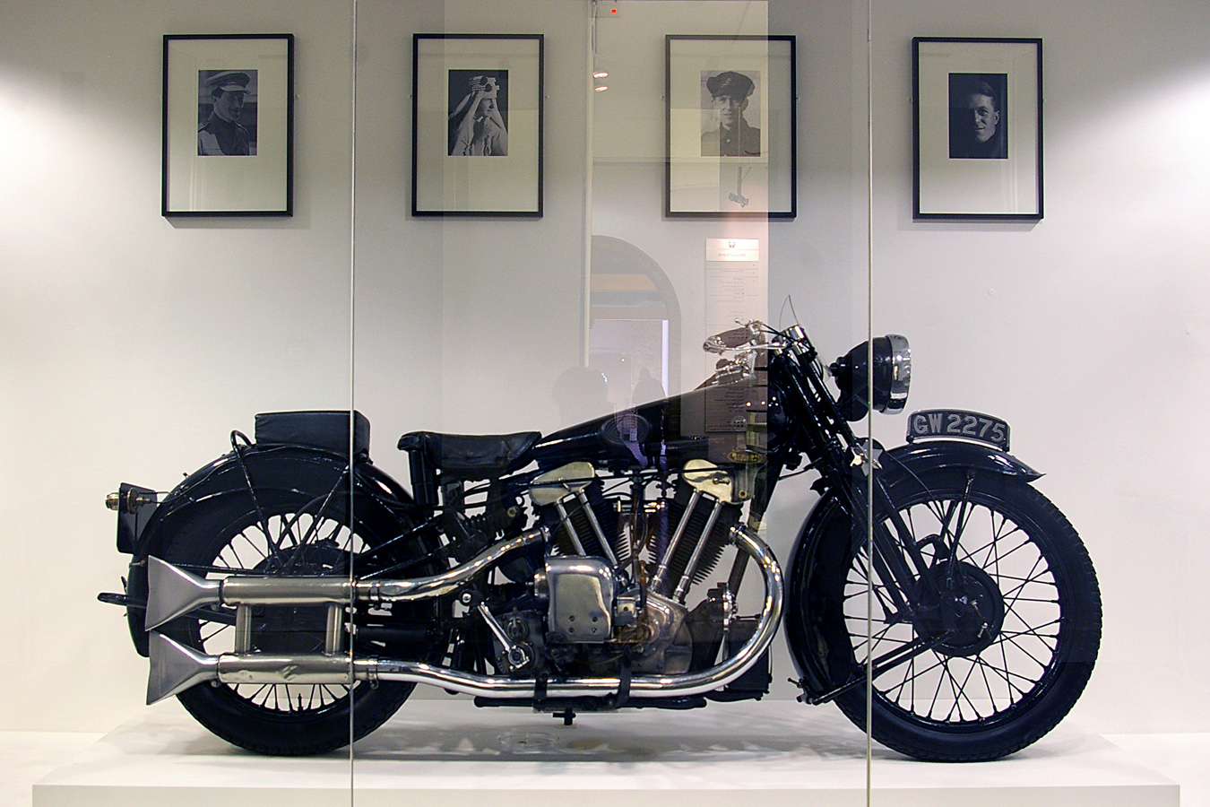 The original (restored) Brough Superior of T. E. Lawrence / Imperial War Museum / London